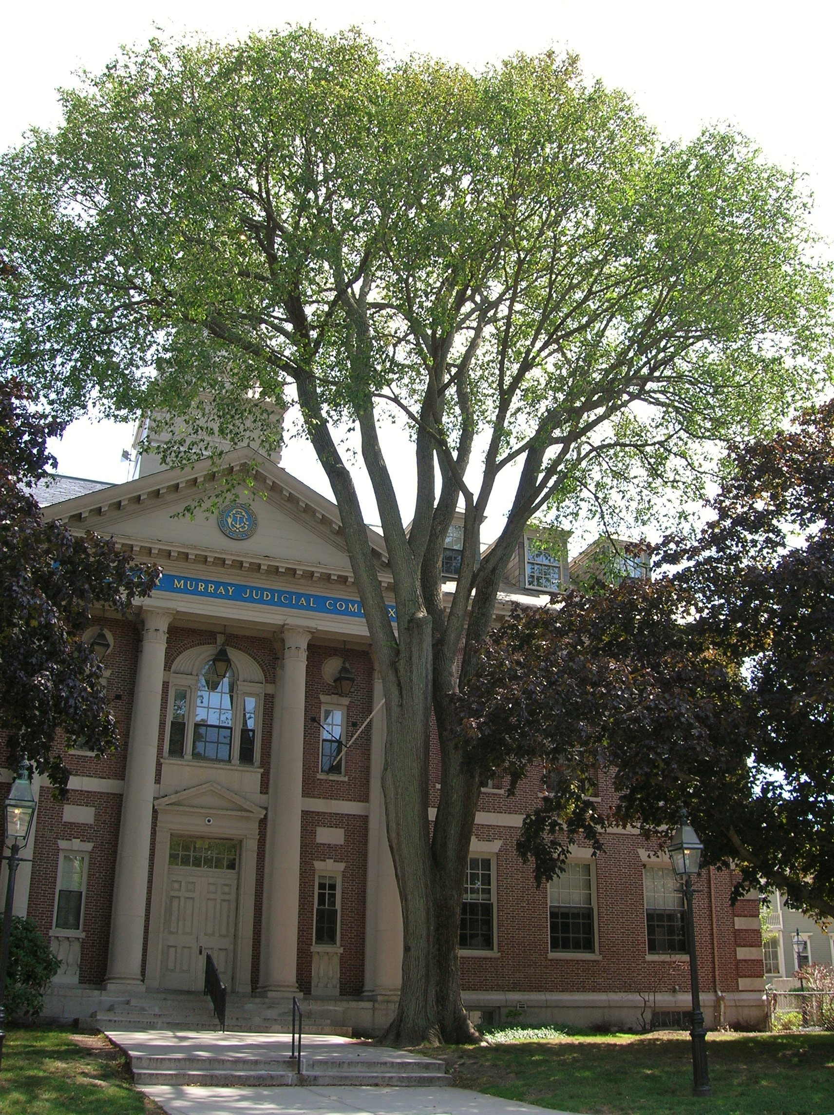 Elm Tree in front of the Murray Judicial Complex in Washington Square. Photo was taken 8/29/2015.